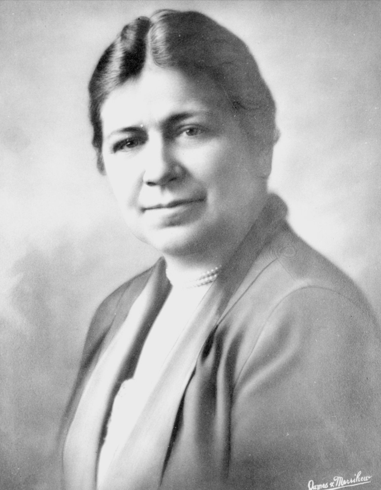 Bertha Knight Landes, Seattle's first woman mayor, served from 1926 to 1928. She was the first woman to lead a major American city. Item 12285, Engineering Department Photographic Negatives (Record Series 2613-07), Seattle Municipal Archives.